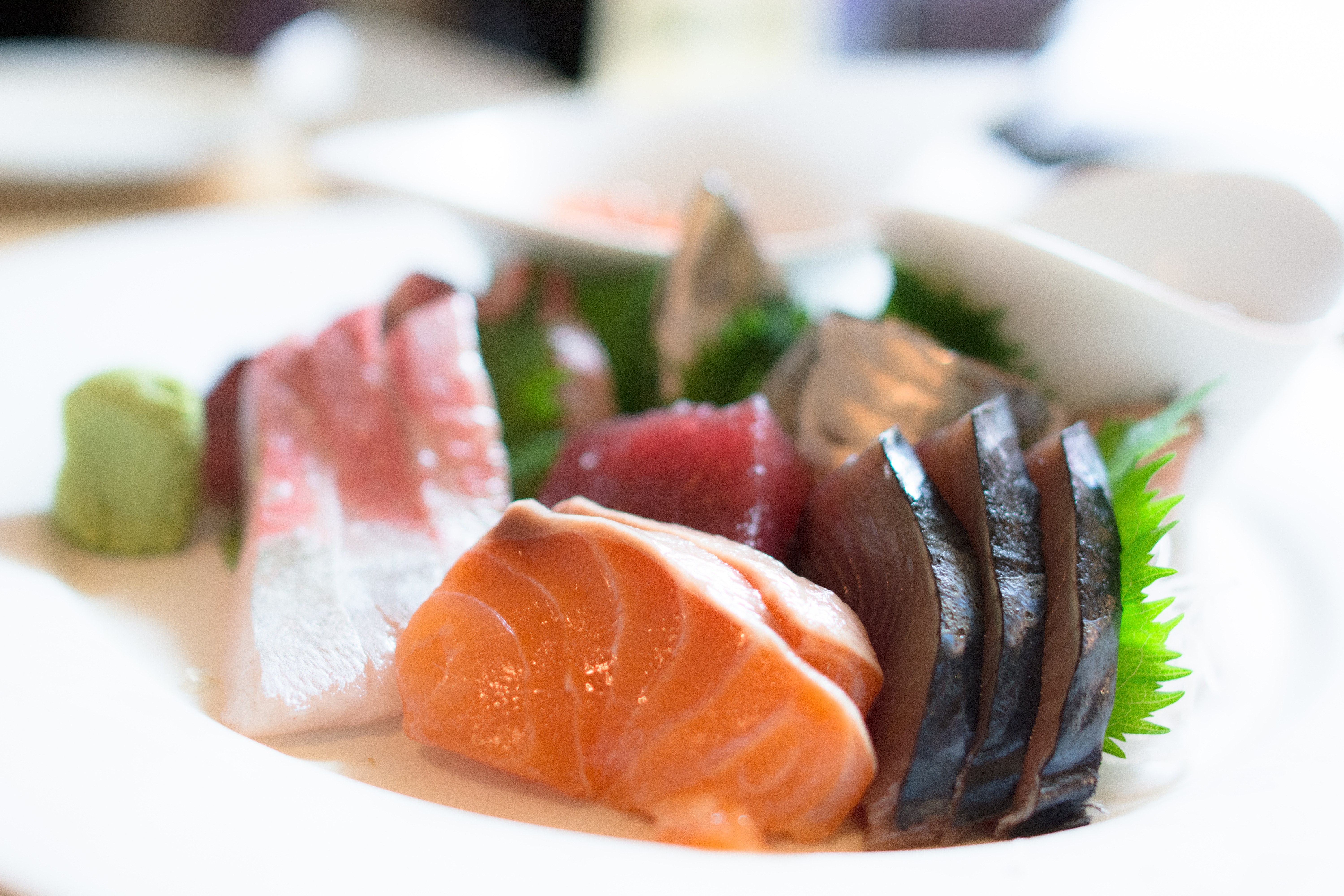 They tasted wonderful! おいしかった！ [ Nikon D5200, Nikon AF-S NIKKOR 28mm f/1.8G, f/2.0, 1/25sec, ISO400, Lightroom 4.4 ]